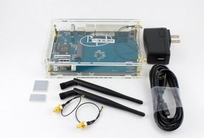 BananaPi-R1